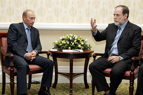 CAPE TOWN. With De Beers Chairman Nicholas Oppenheimer.